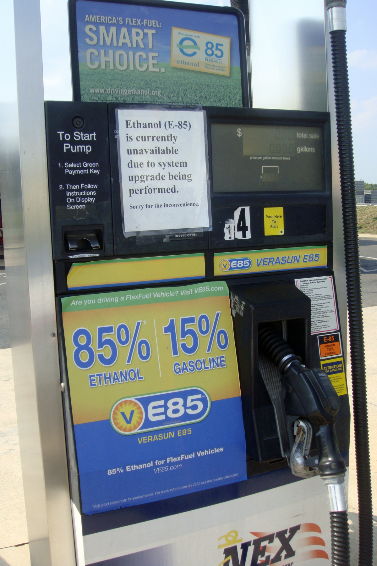 U.S. ethanol fuel (E85) pump near the Pentagon, Arlington, Virginia